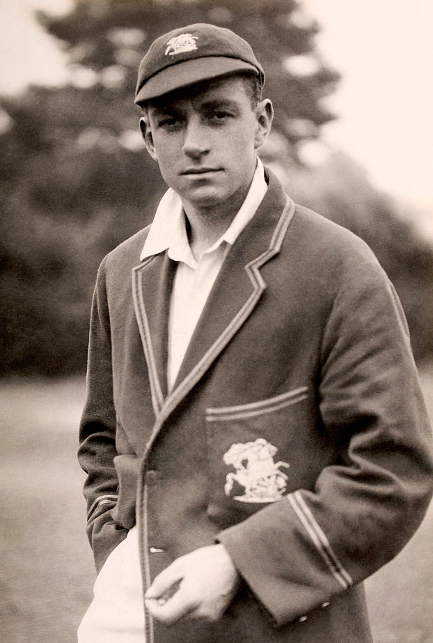 Gloucestershire and England cricketer Wally Hammond, circa 1930..